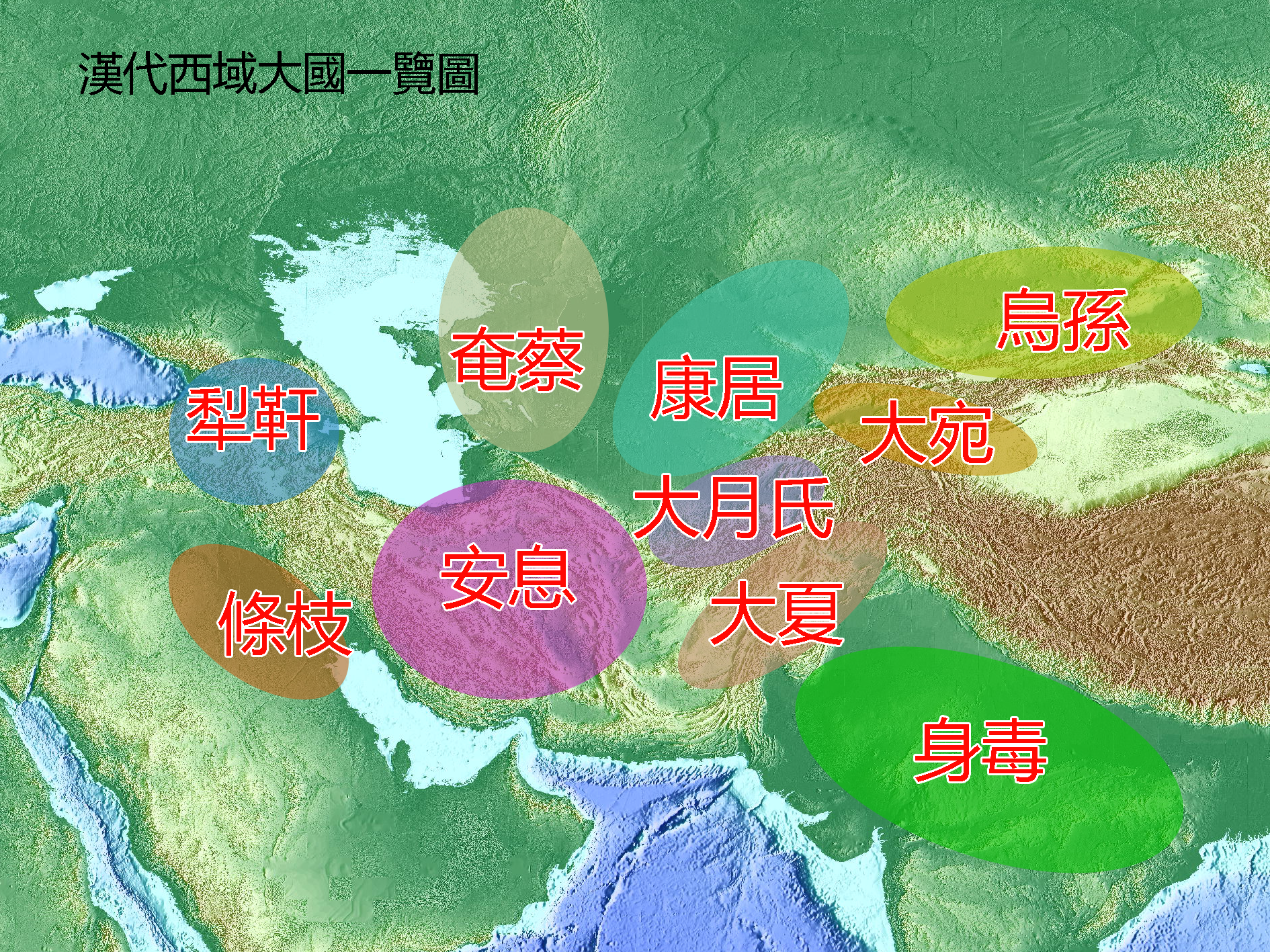 The western regions of Han dynasty